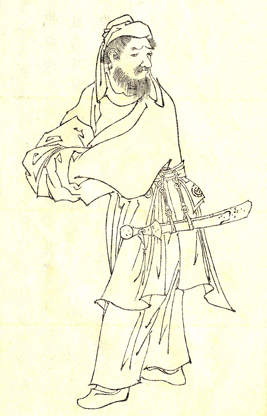 Hikokunibuku no Mikoto(彦國葺命)was a legendantly person of Japanese Mythology.